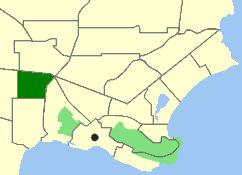 Map of the suburb of Lockyer in Albany, Western Australia.